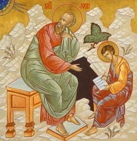 John the Evangelist and his pupil Prochorus. Russian icon